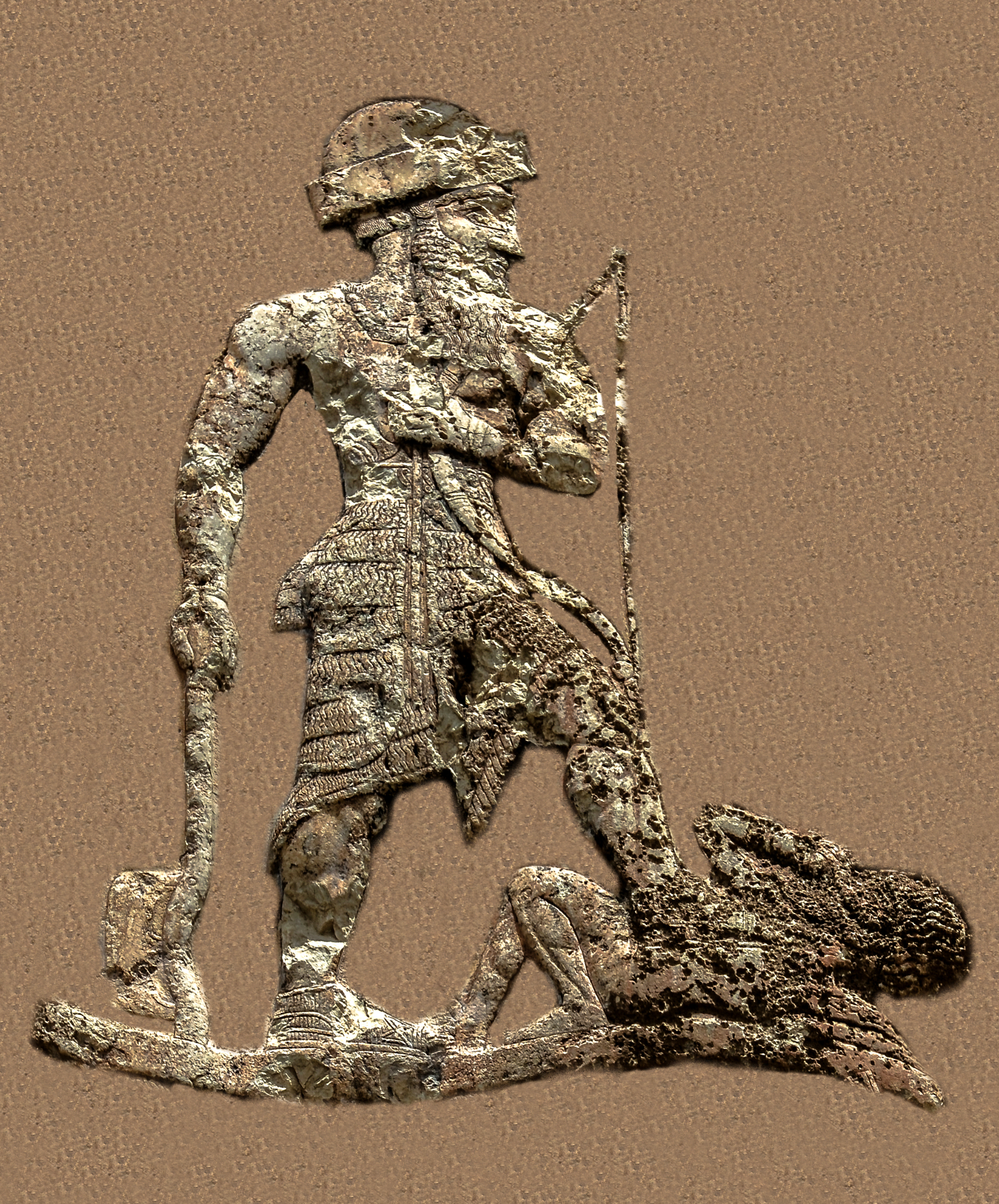 Anubanini relief constituents King Anubanini